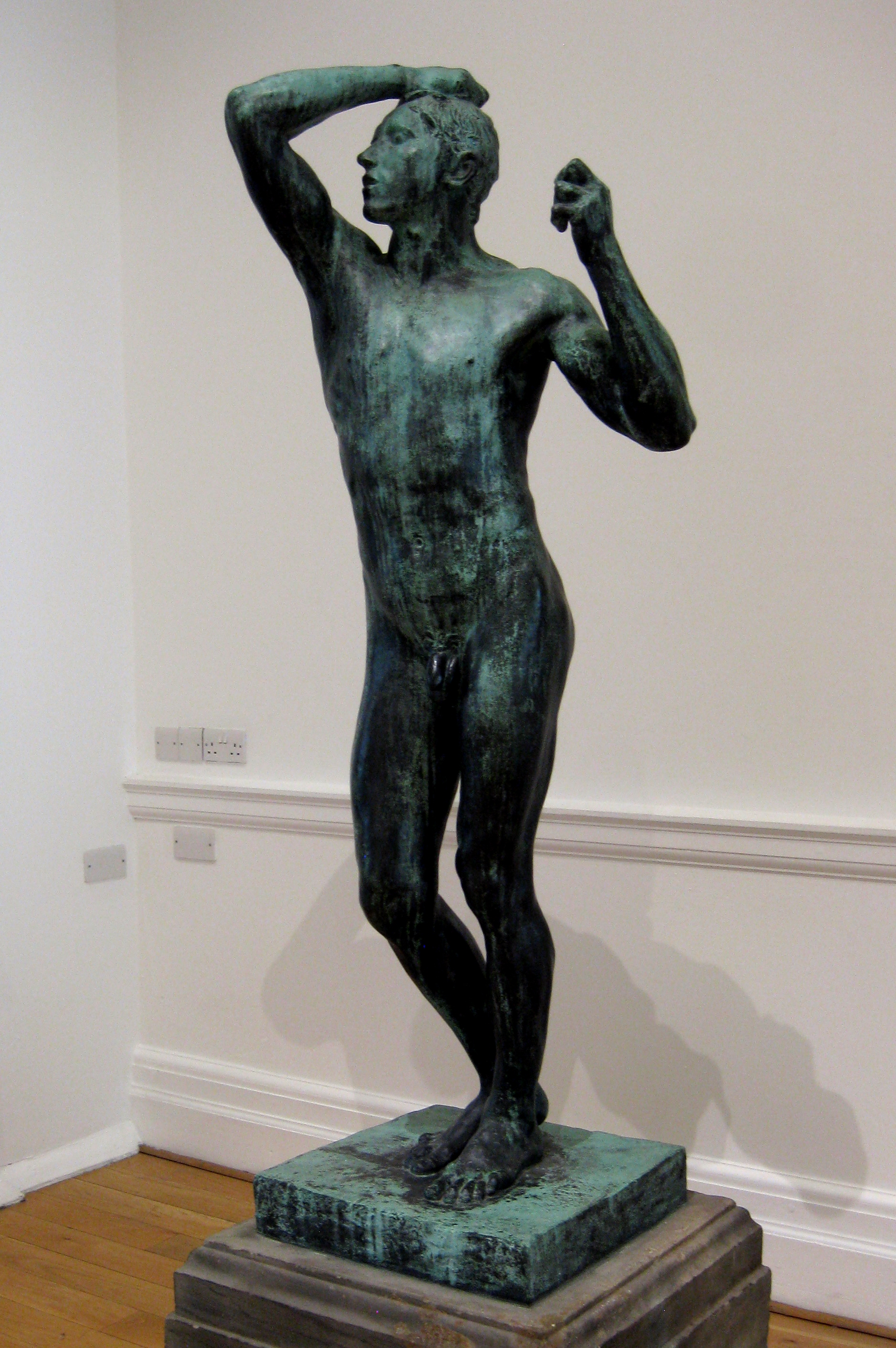 "Age of Bronze" by Rodin, Leeds City Art Gallery